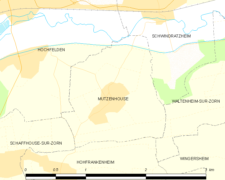 Map of French municipality